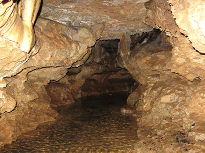 Cave passage photographed prior to boardwalk installation